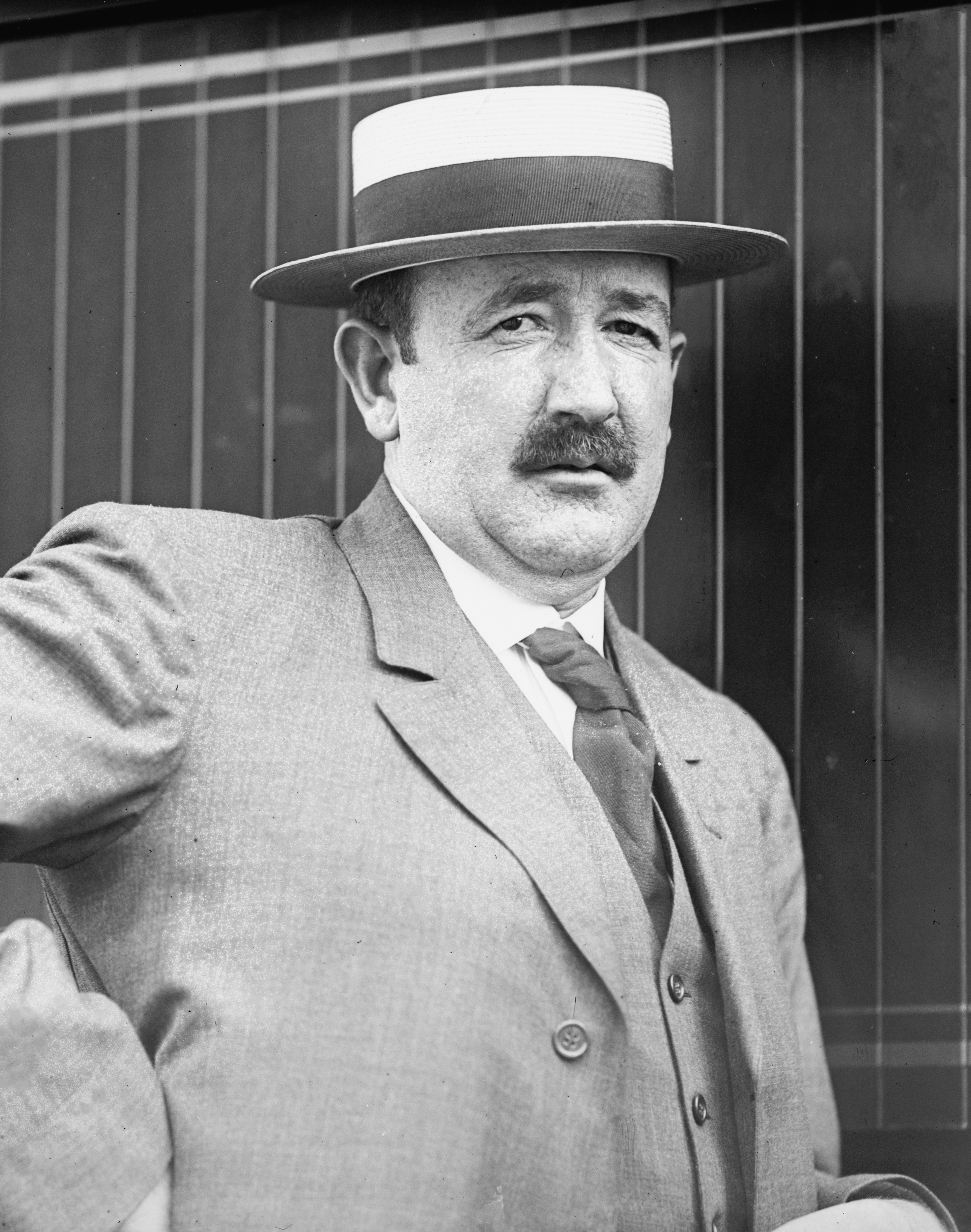 Homer Davenport (1867-1912), American political cartoonist